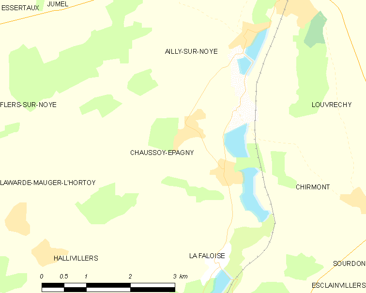 Map of French municipality Chaussoy-Epagny